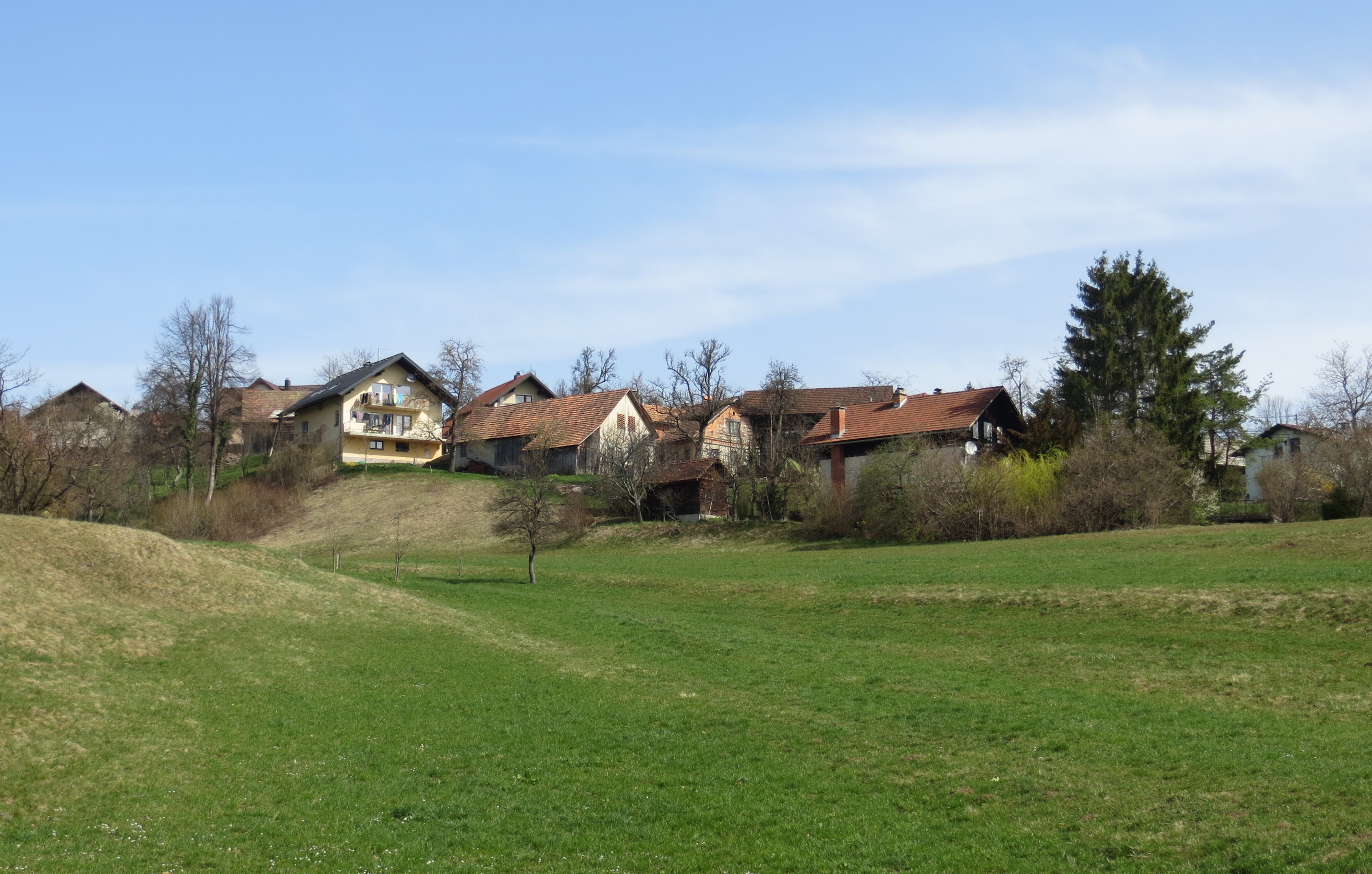 Gradež, Municipality of Velike Lašče, Slovenia